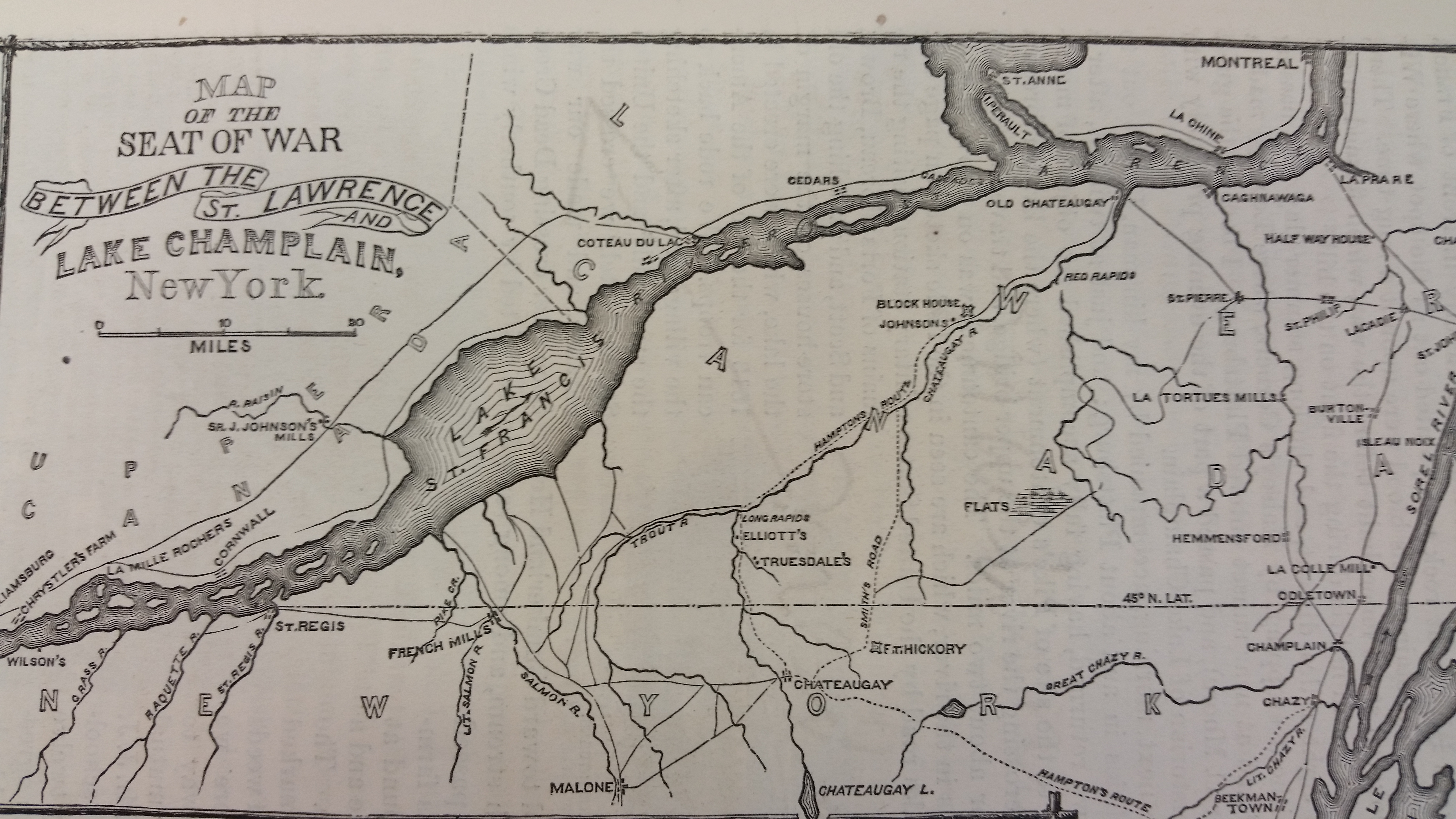 Chateaugay